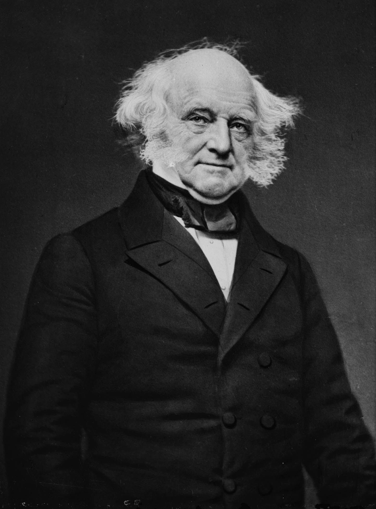 Martin Van Buren. Library of Congress description: "Martin Van Buren, ex-pres of U.S."